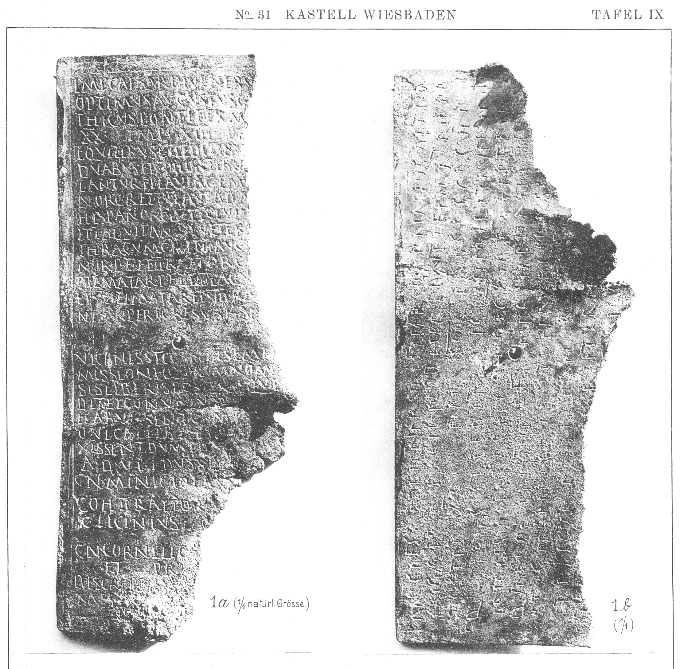 Military diploma found in Kastell Wiesbaden.